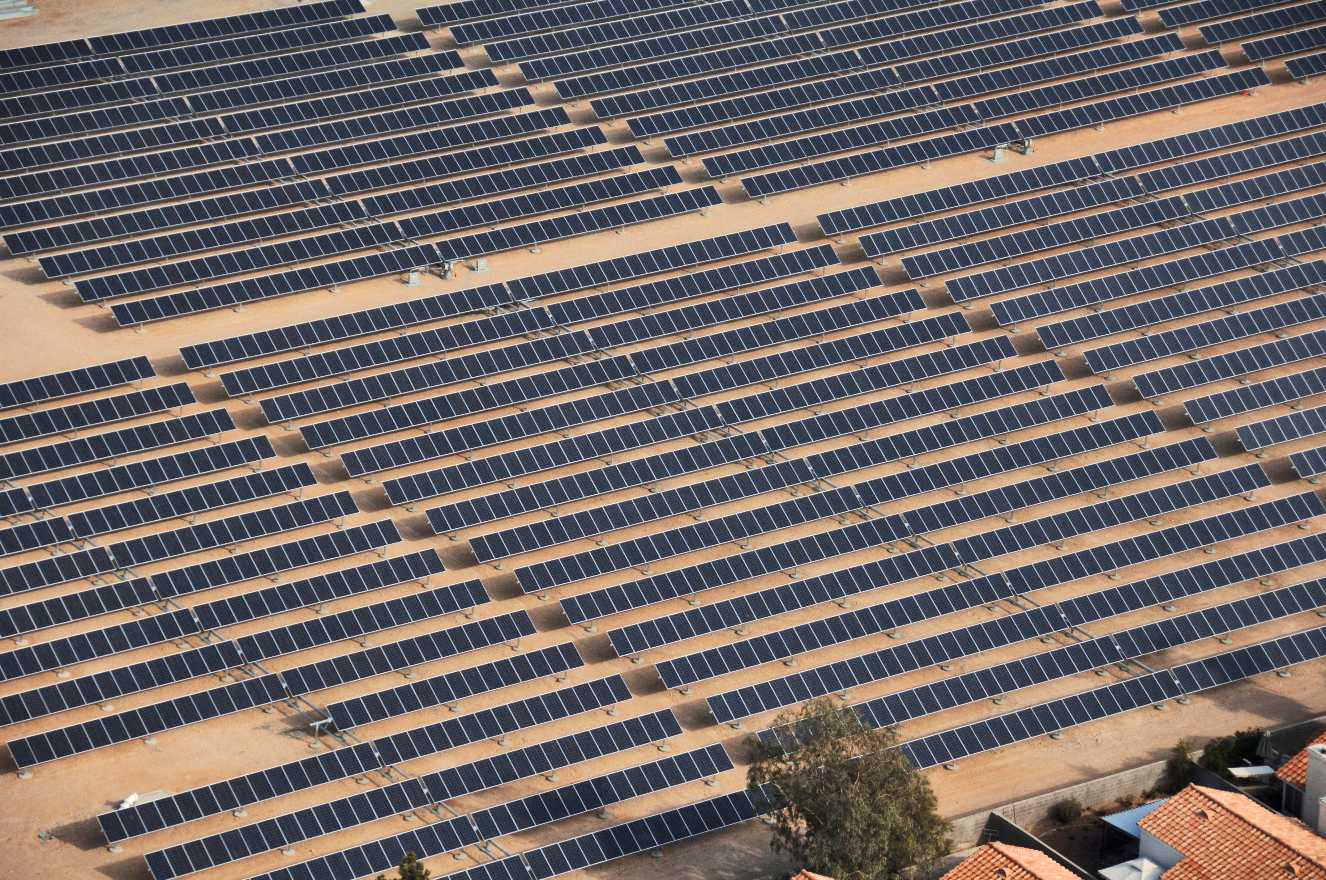 Photovoltaic power station, Las Vegas Water District's Ronzone Reservoir